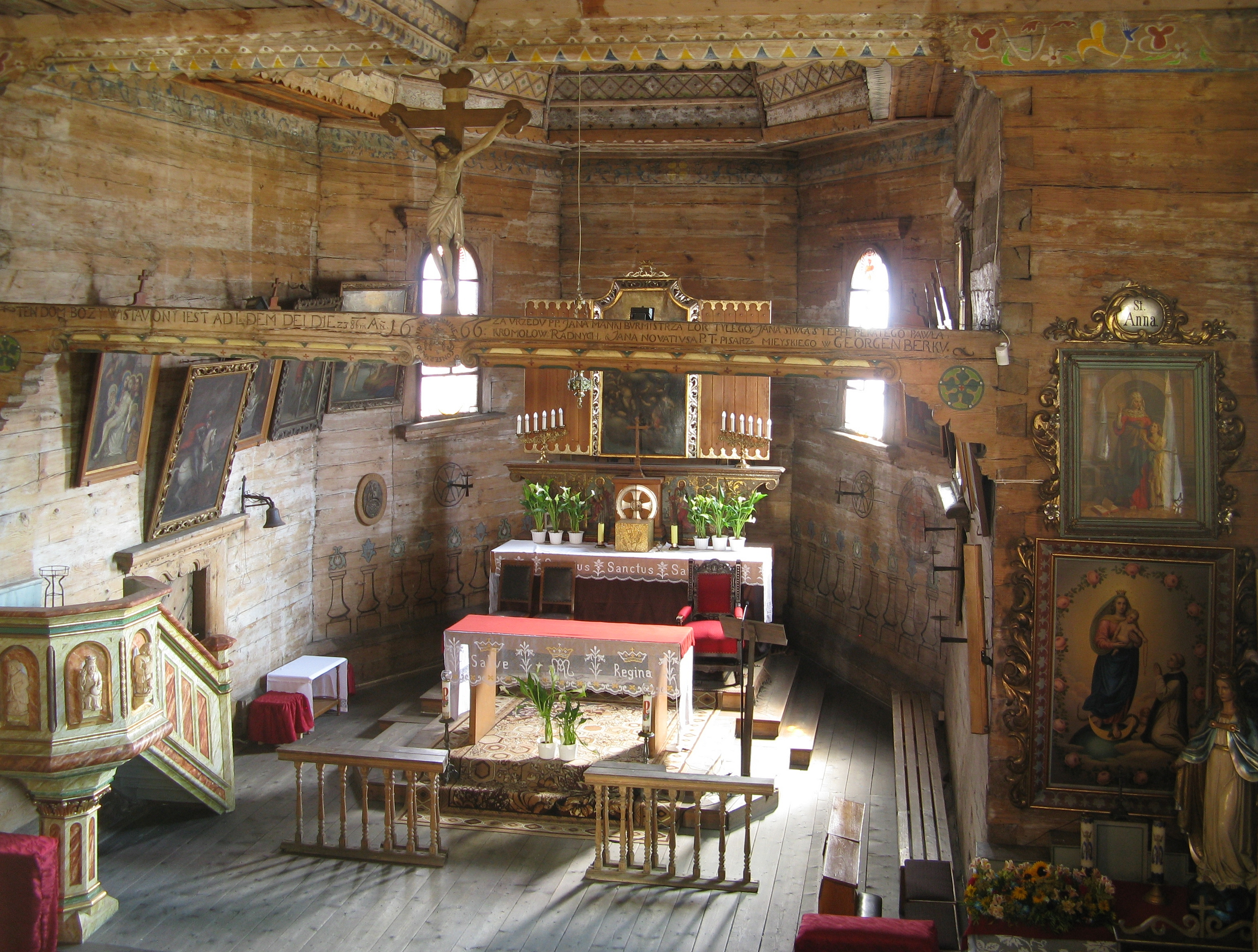 Interior of Saint George and the Assumption of Mary church in Miasteczko Śląskie, Poland, seen from matroneum.